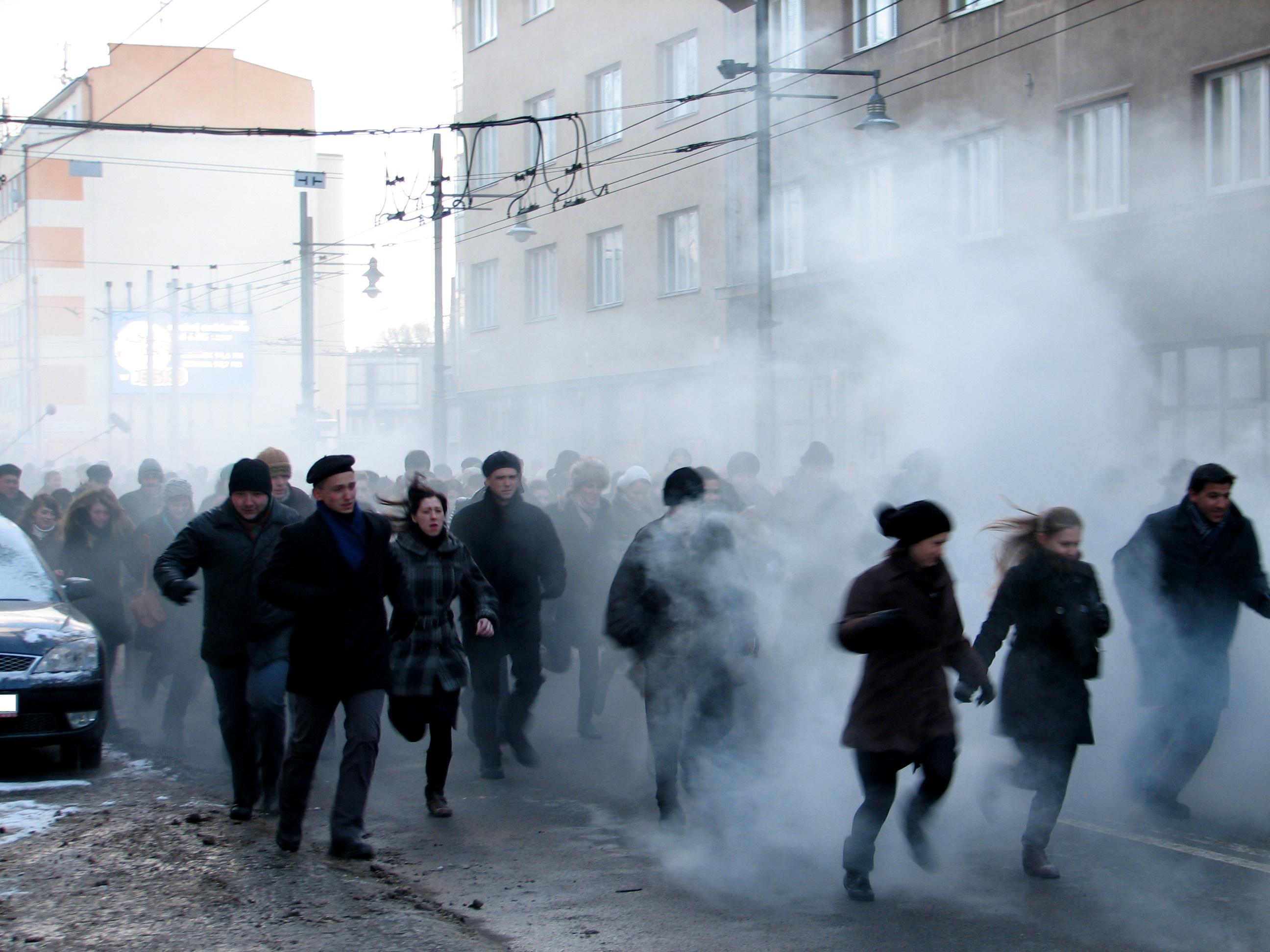 Filming of "Black Thursday" at intersection of ulica Świętojańska and Aleja Józefa Piłsudskiego in Gdynia. People on this picture are actors, extras, and film crew. "Black Thursday" is a film about Polish 1970 protests.